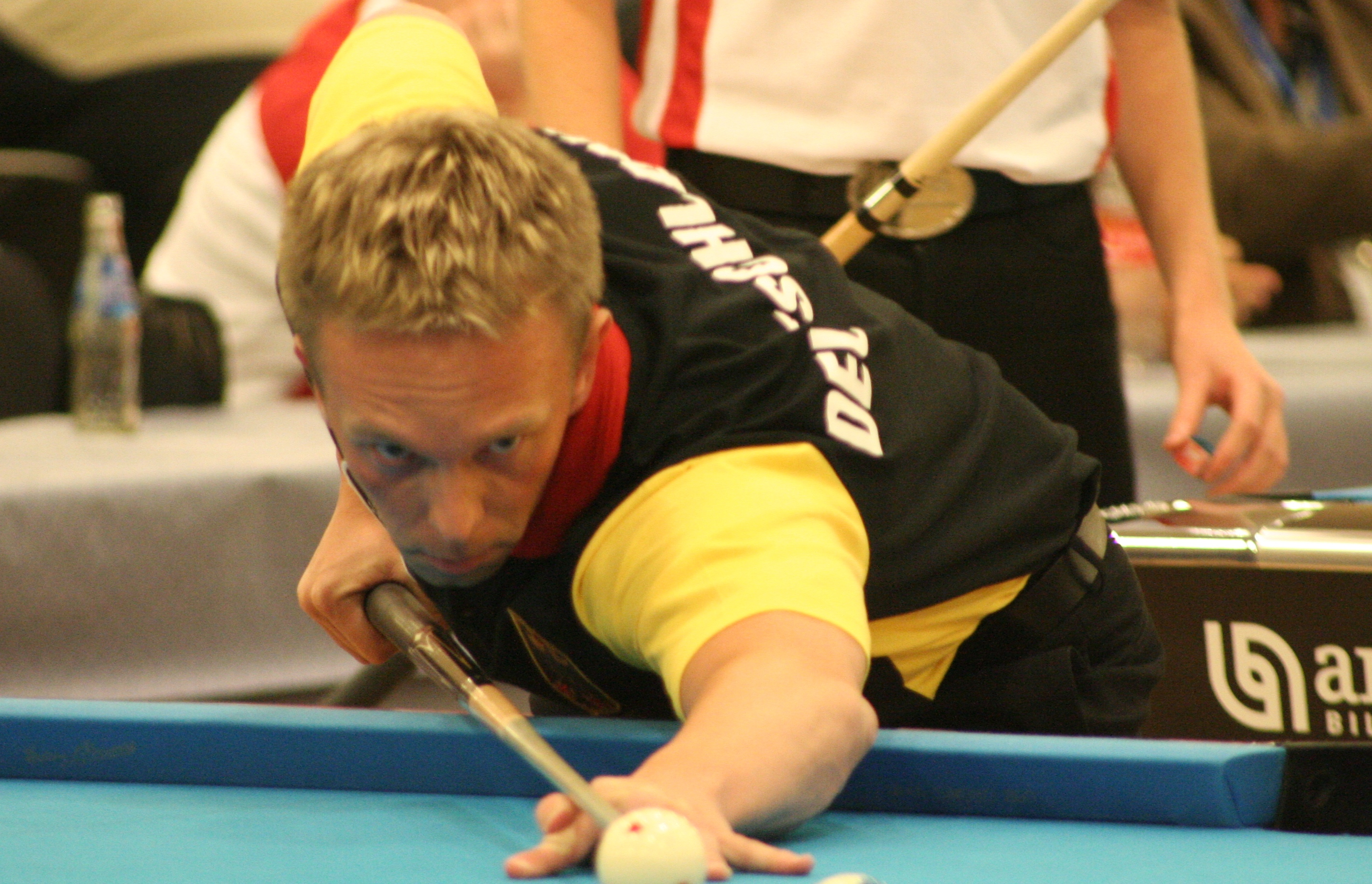 German pool player Thorsten Hohmann at the European Pool Championship 2008 in Willingen, Germany.